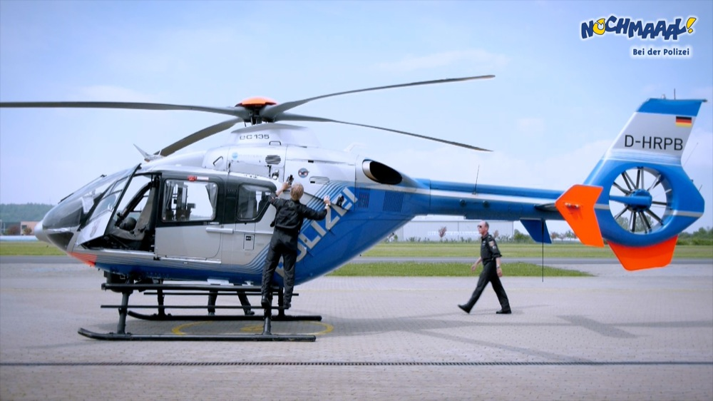 The police helicopter is prepared.